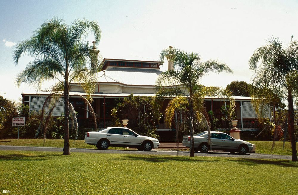 Yungaba Migrant Hostel (1999) - front view